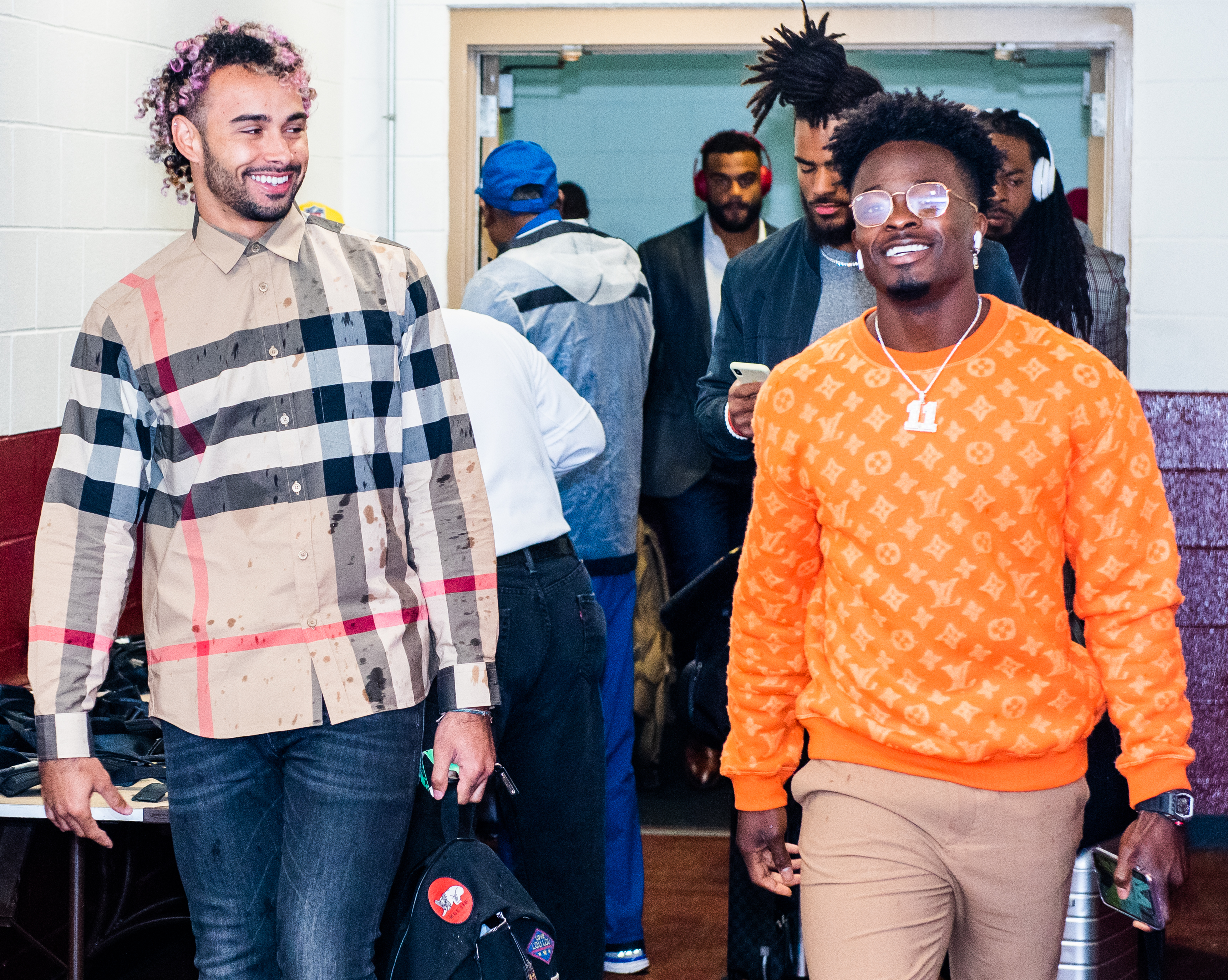 In 2019